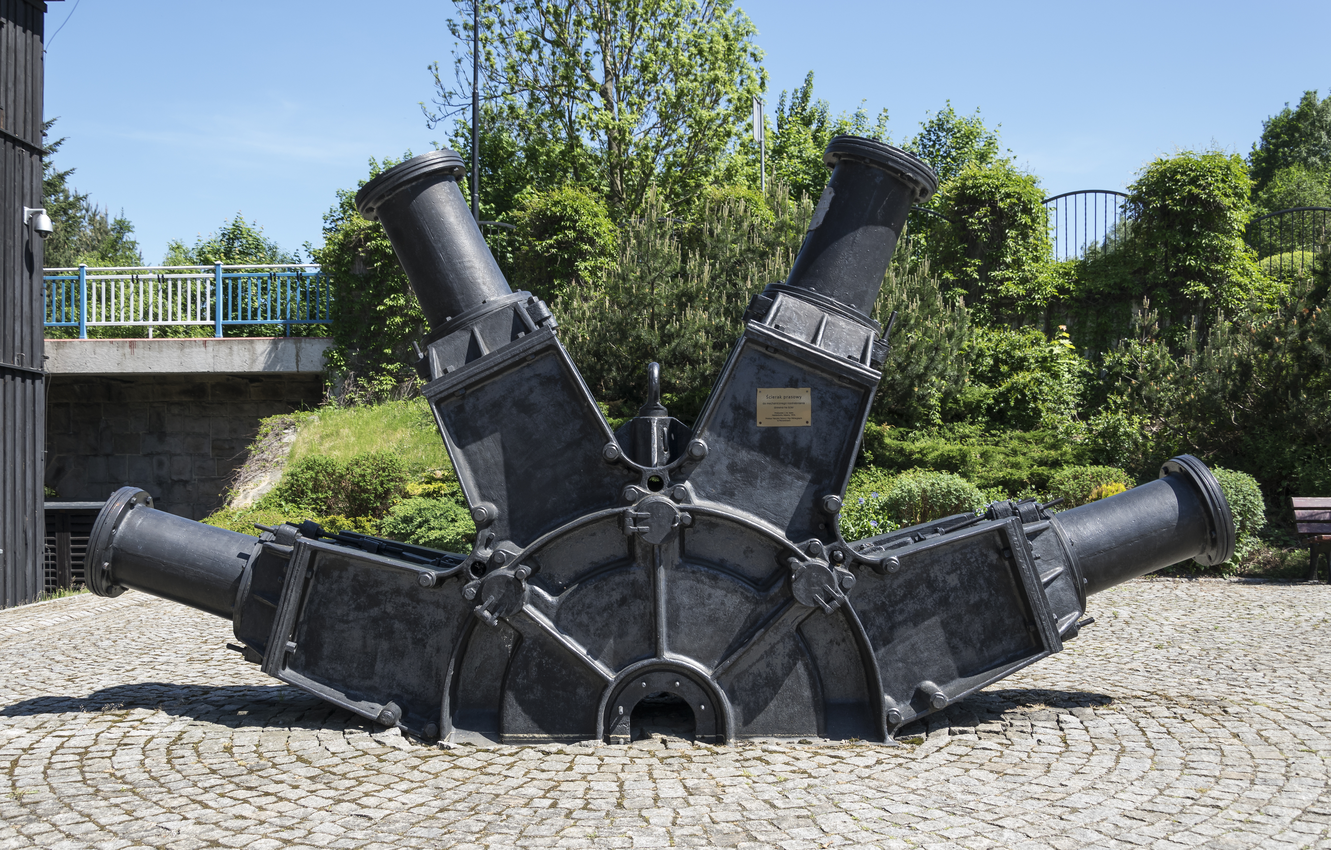 Museum of Papermaking in Duszniki-Zdrój, press crusher